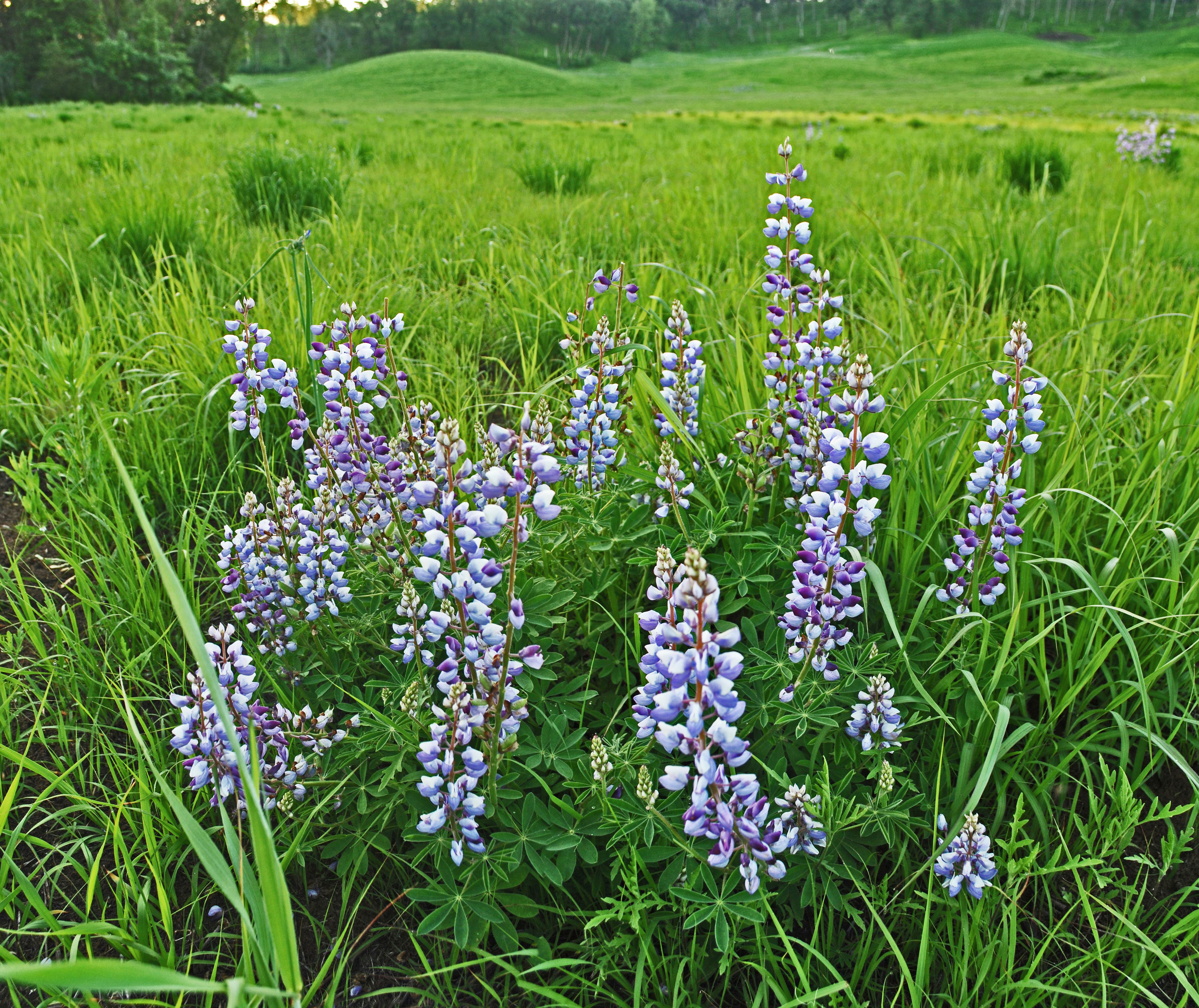 Wild lupine (Lupinus perennis) in Pepin County, Wisconsin.